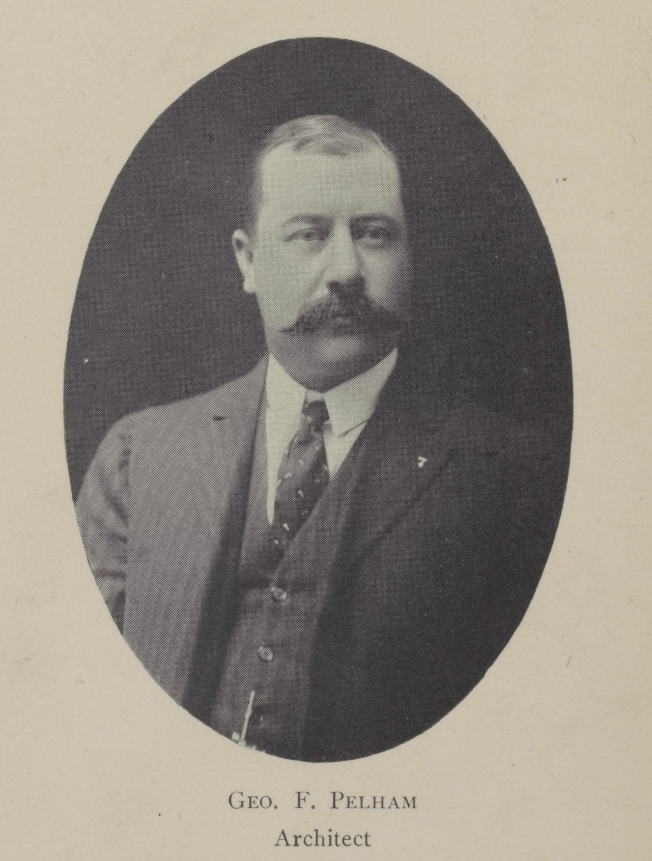 Portrait of George F. Pelham.